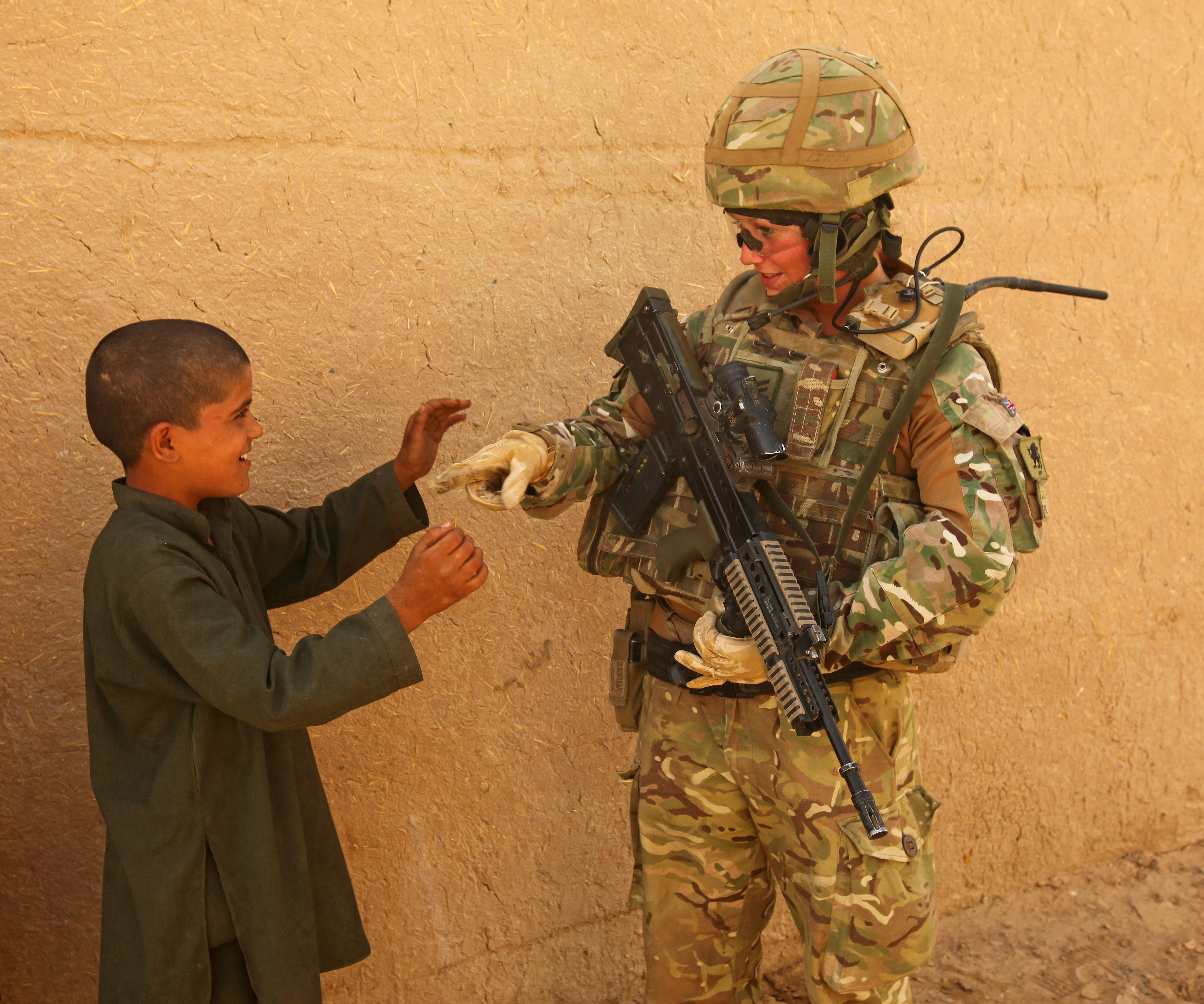 Cpl. Claire Livie, an airman with the Royal Air Force’s 2nd Tactical Provost Squadron, chats with an Afghan boy while providing security during a shura held security at a bazaar located outside of Camp Leatherneck, Helmand province, Sept. 29. The purpose of the meeting was to discuss moving all of the squatters located outside of the base to a more secure location farther north.